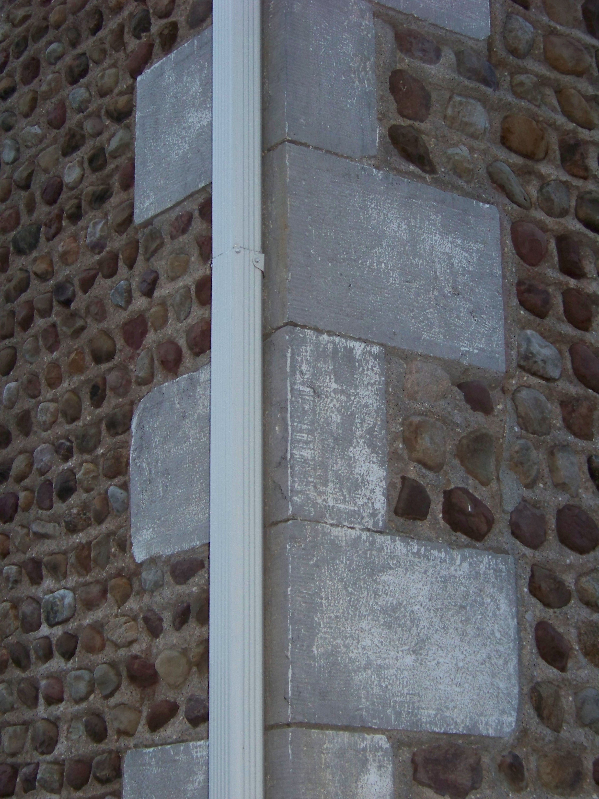 Quoins on the Cobblestone Farhouse at 1229 Birdsey Road, Junius, Seneca County, NY